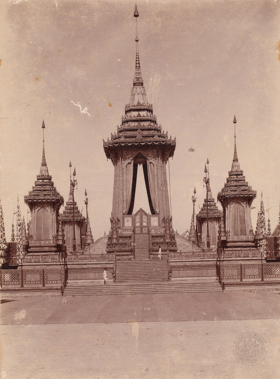 Royal crematorium (phra merumat) of King Chulalongkorn